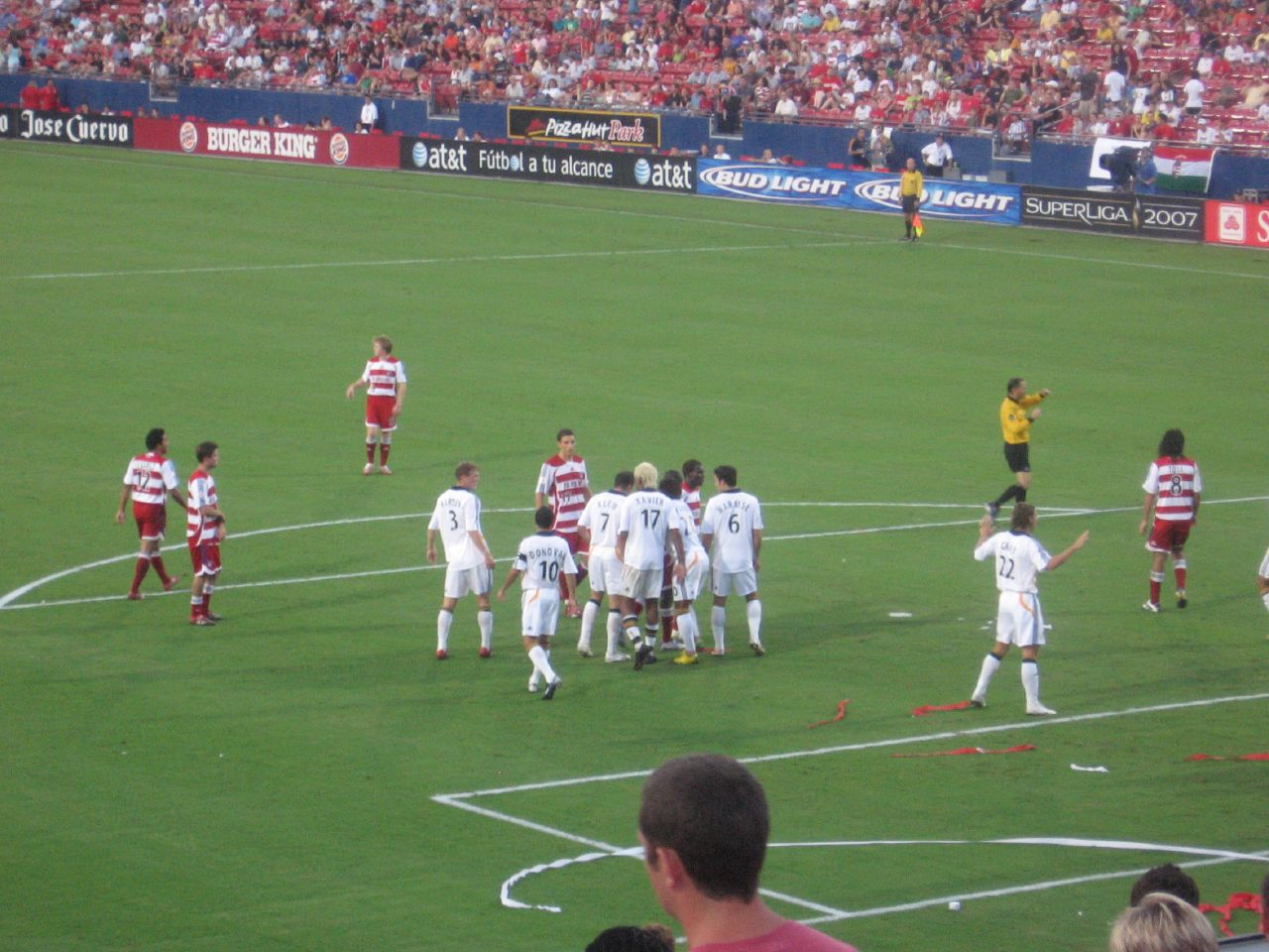 FC Dallas vs. LA Galaxy in the 2007 SuperLiga on July 31, 2007 at Pizza Hut Park in Frisco, Texas.